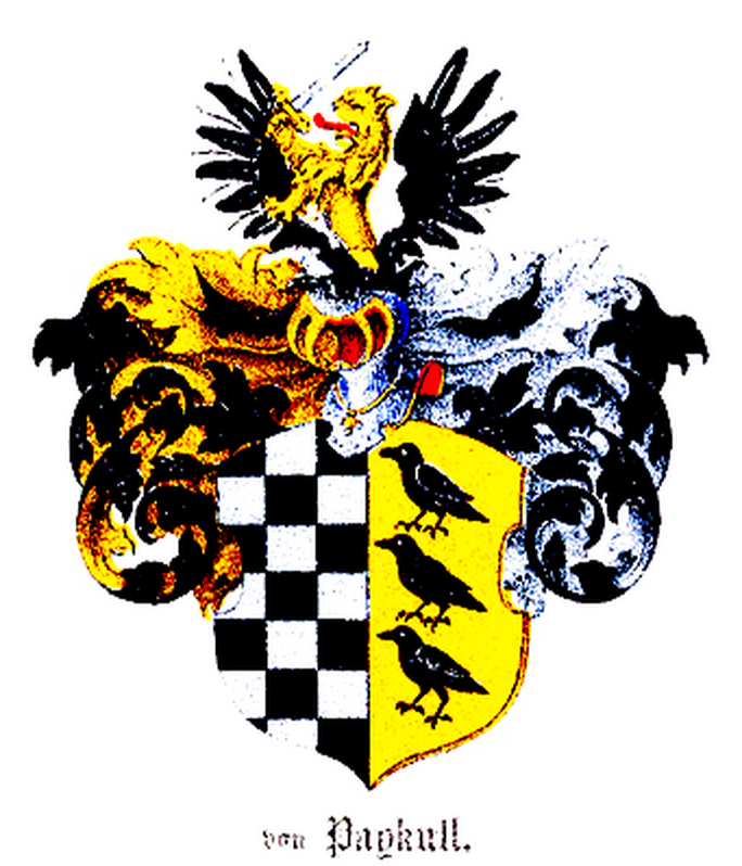 Coat of Arms of Paykull family